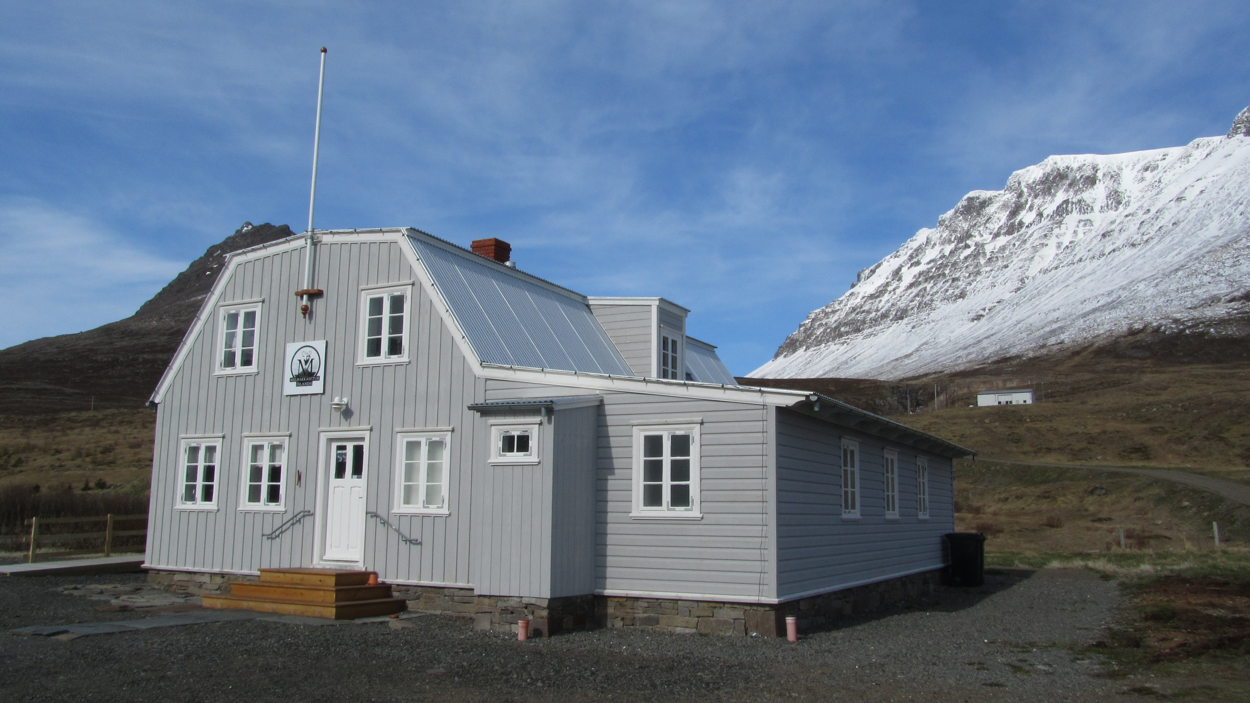 The building of the Arctic Fox Center in Súðavík on a nice but cold day in May.